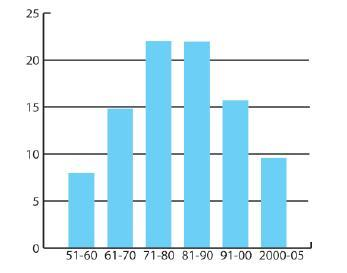 Number of amendments to the Indian constitution per decade